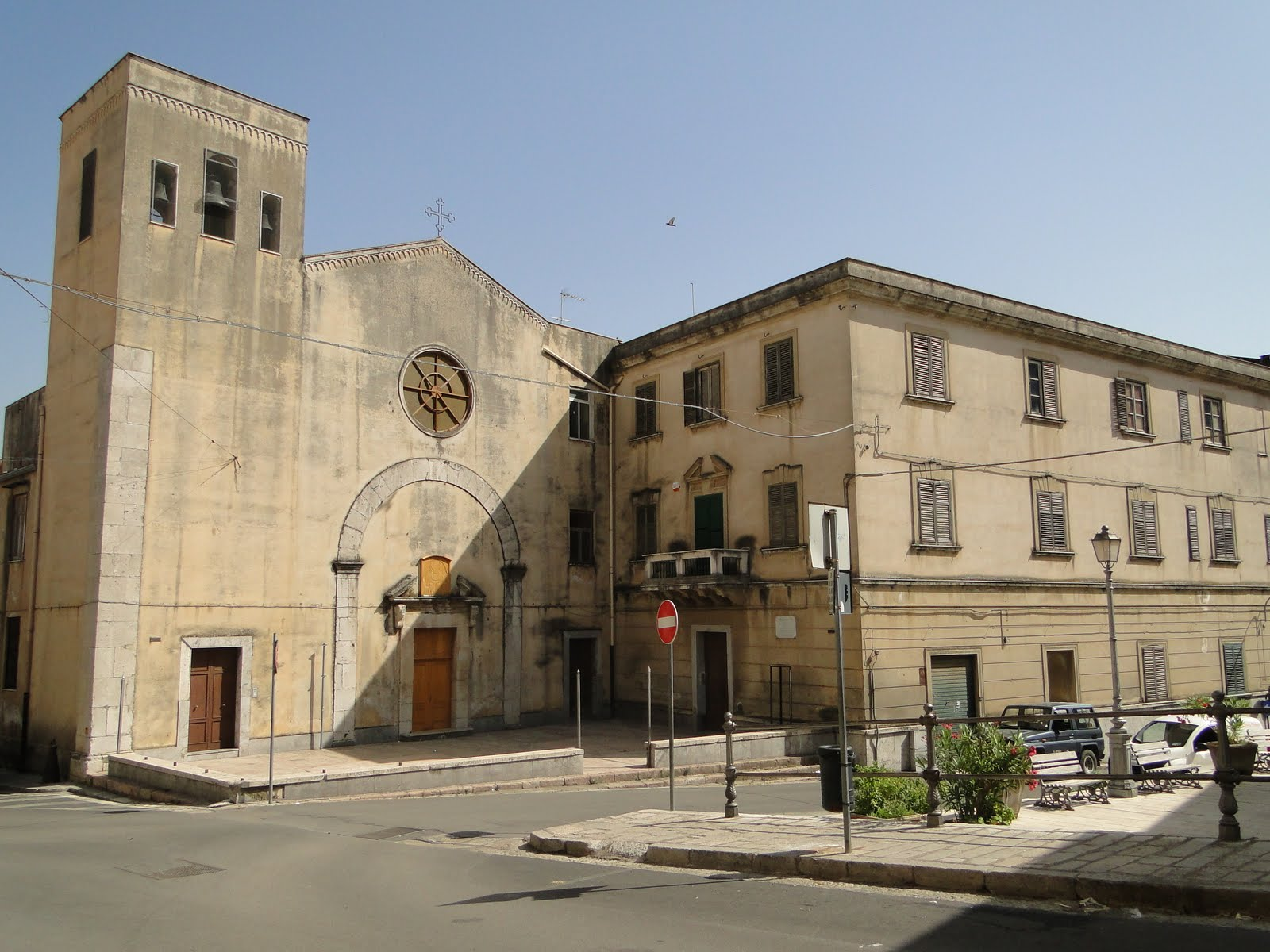 From left to right: church of St. Nicholas of Myra, the diocesan headquarters of Piana degli Albanesi (PA), with the adjoining Eparchial Seminary (or Italo-Albanian).